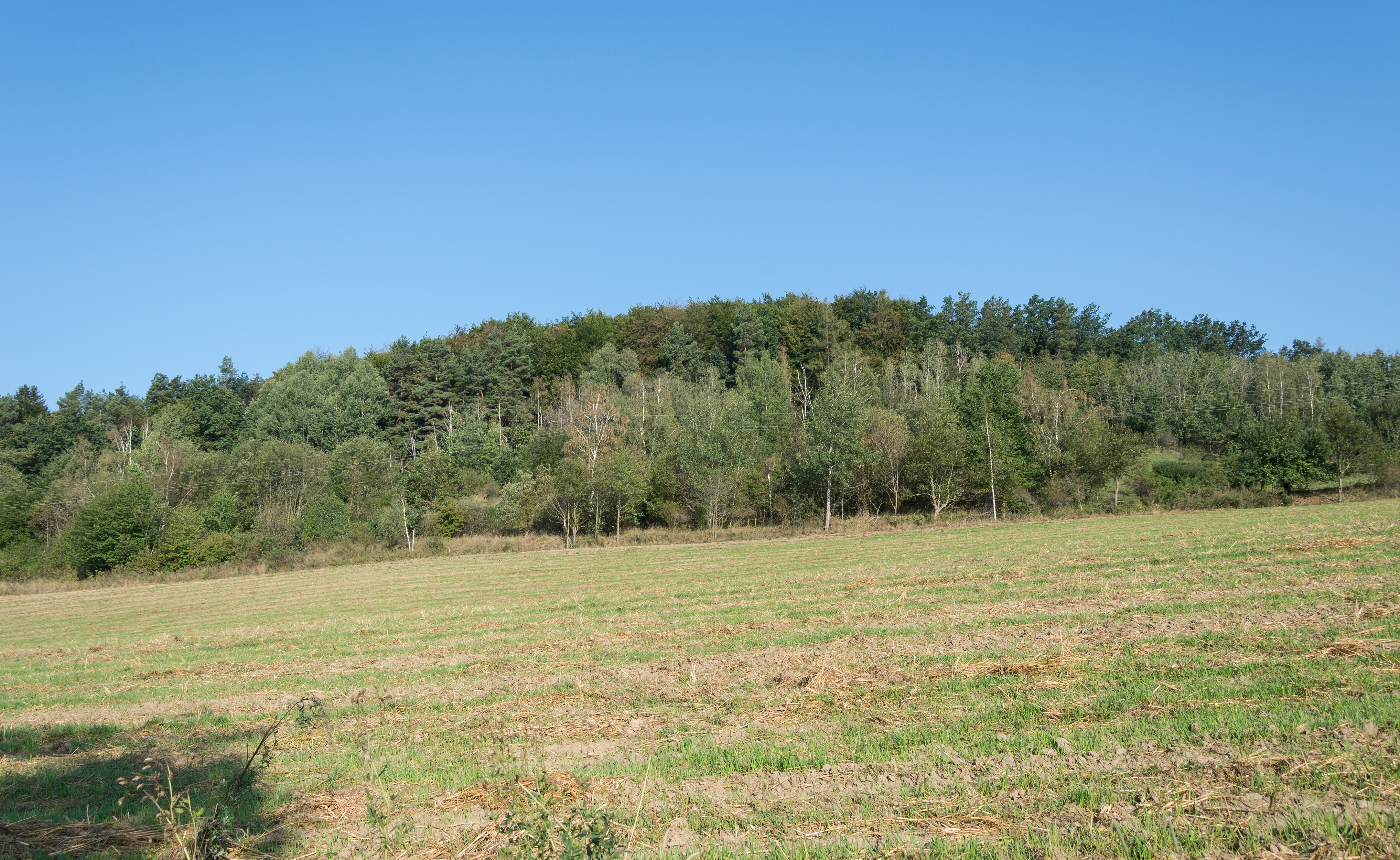 Grodowa, Krowiarki Mountains, Sudetes This is a photography of protected area with CRFOP ID PL.ZIPOP.1393.N2K.PLH020019.H